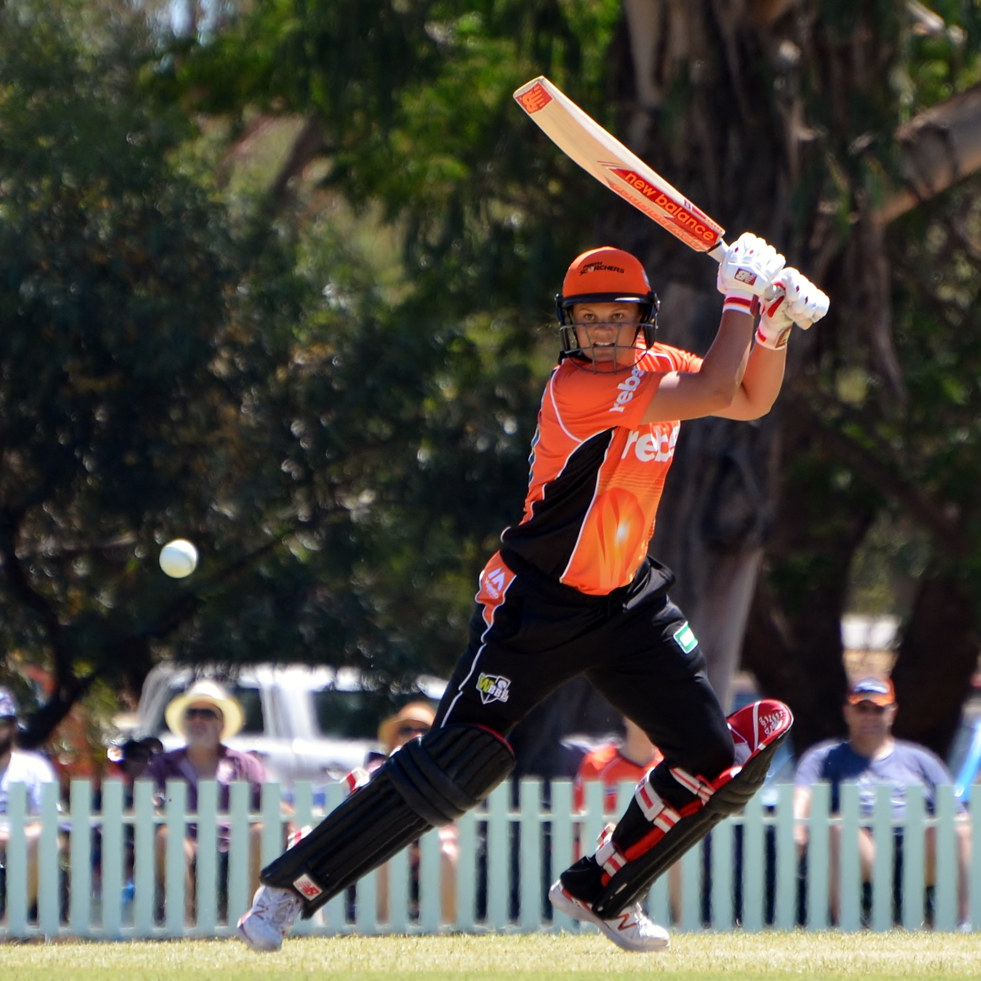 Suzie Bates on her way to 28 for Perth Scorchers (WBBL) against Sydney Thunder (WBBL) at Lilac Hill Park, Perth, Australia.